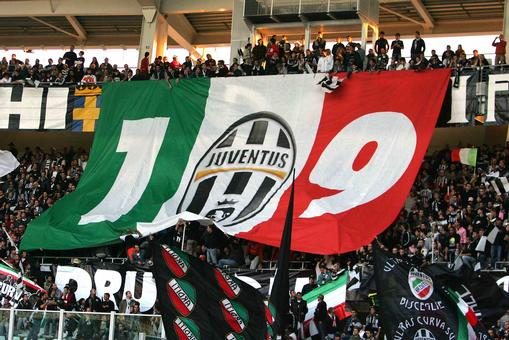 Juventus 109 years